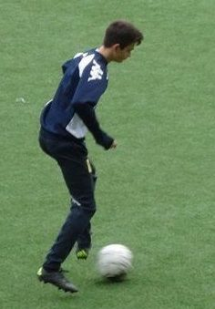 Edon Zhegrova duke u trajnuar per skuadren e tij Standart Liege.